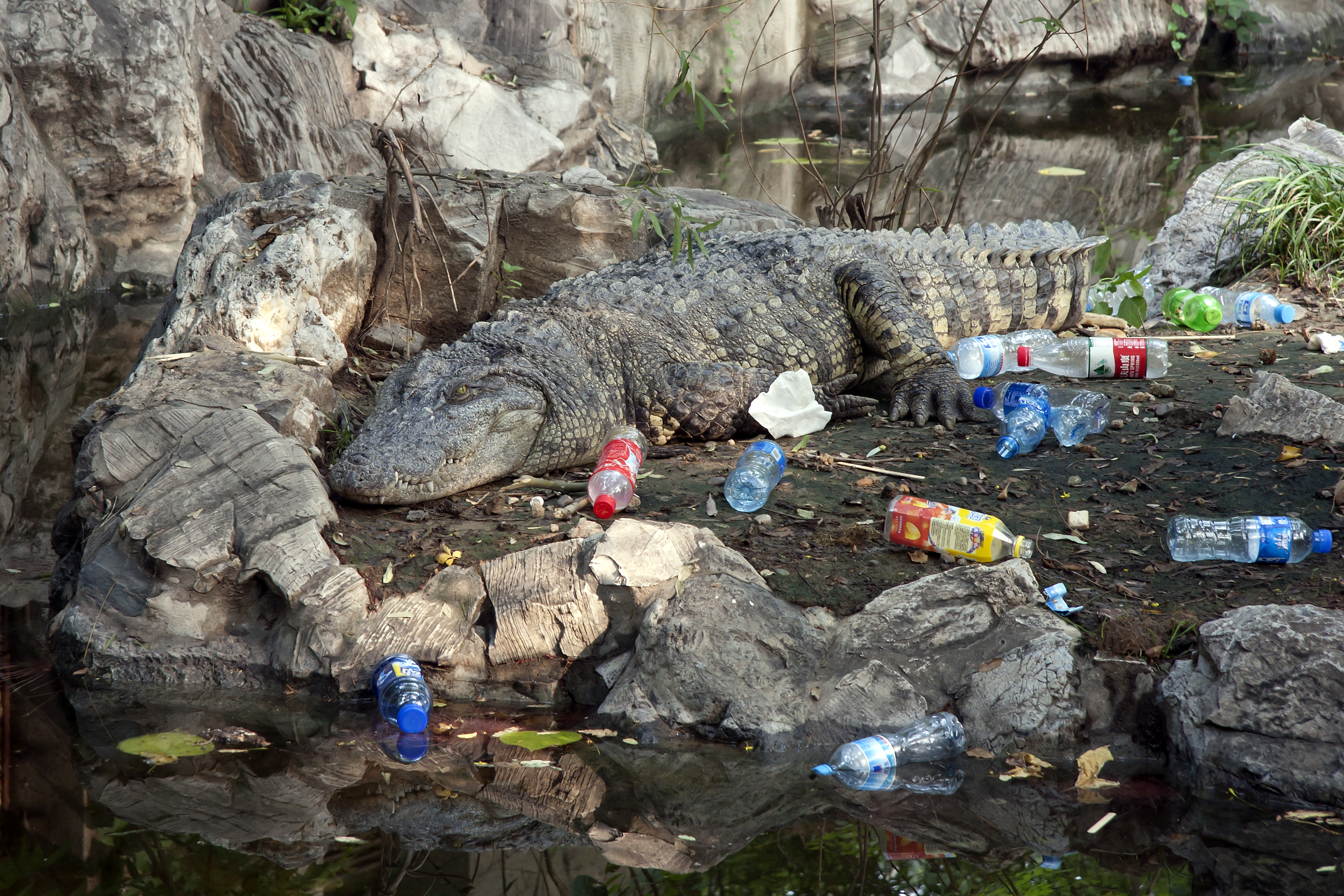 Chinese alligator at Beijing Zoo.